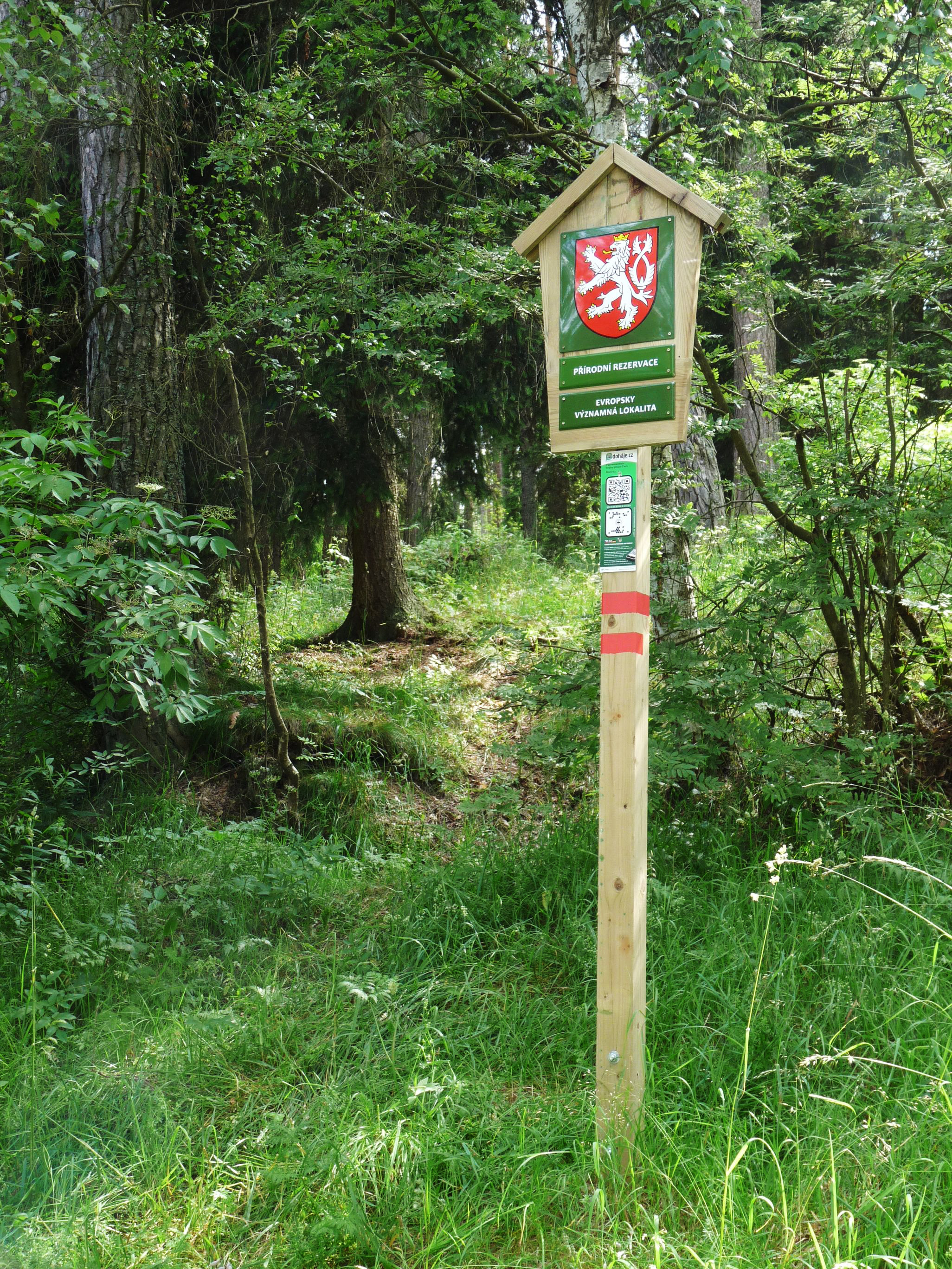 Miletínky nature reserve near the village of Miletínky, Prachatice District, South Bohemian Region, Czech Republic - sign of the border of the protected area.